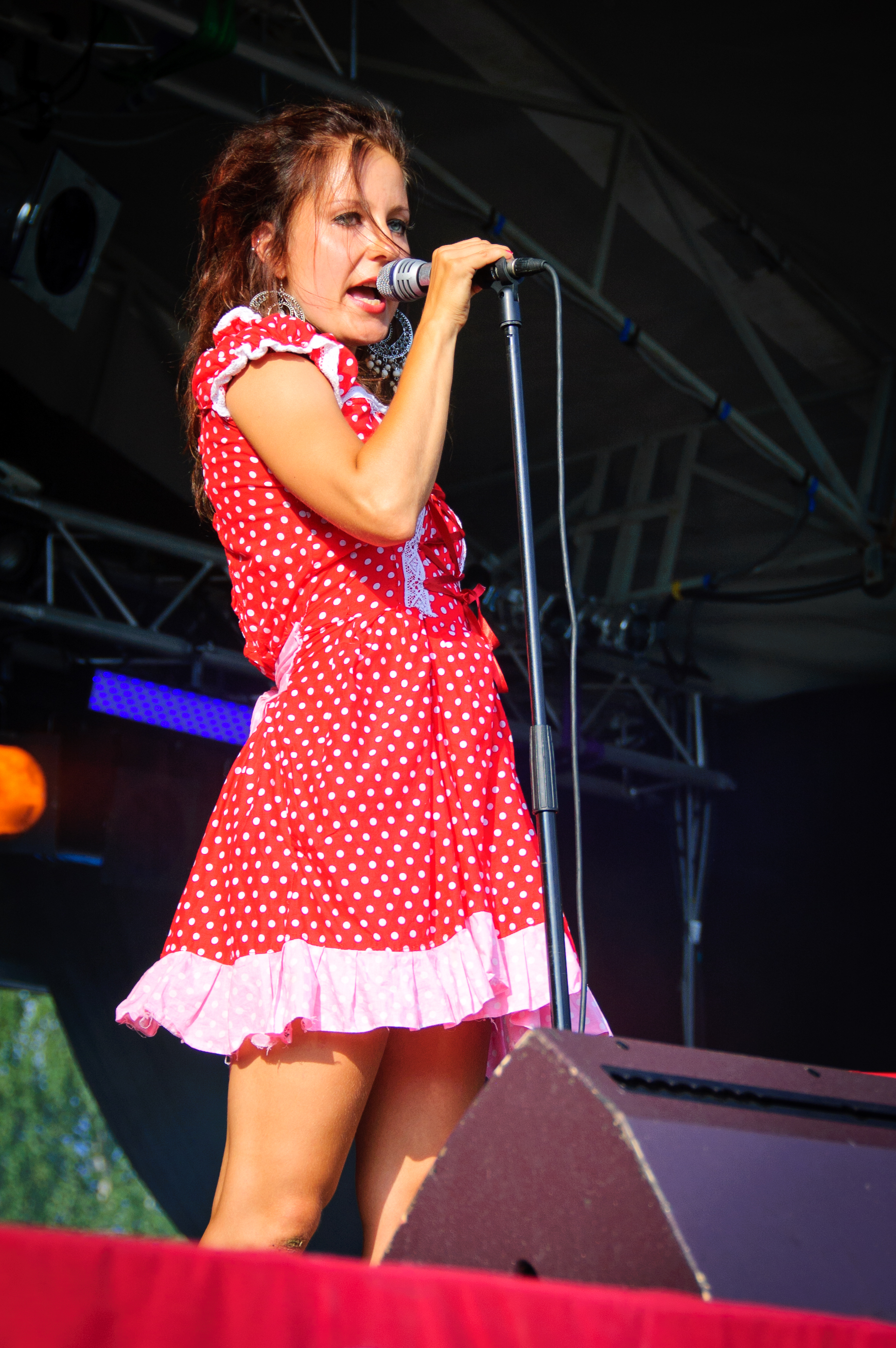 Finnish vocalist Mariska performing at the 2010 Ilosaarirock festival in Joensuu, Finland.